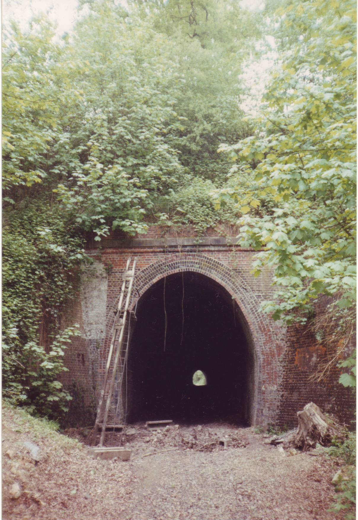 Grove Tunnel (Eastern Portal) at Tunbridge Wells West, Kent